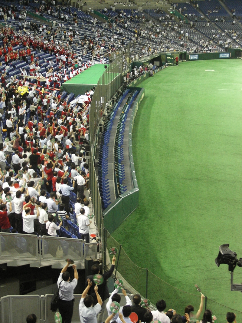 The Intercity Baseball Tournament 2007 Tokyo Dome